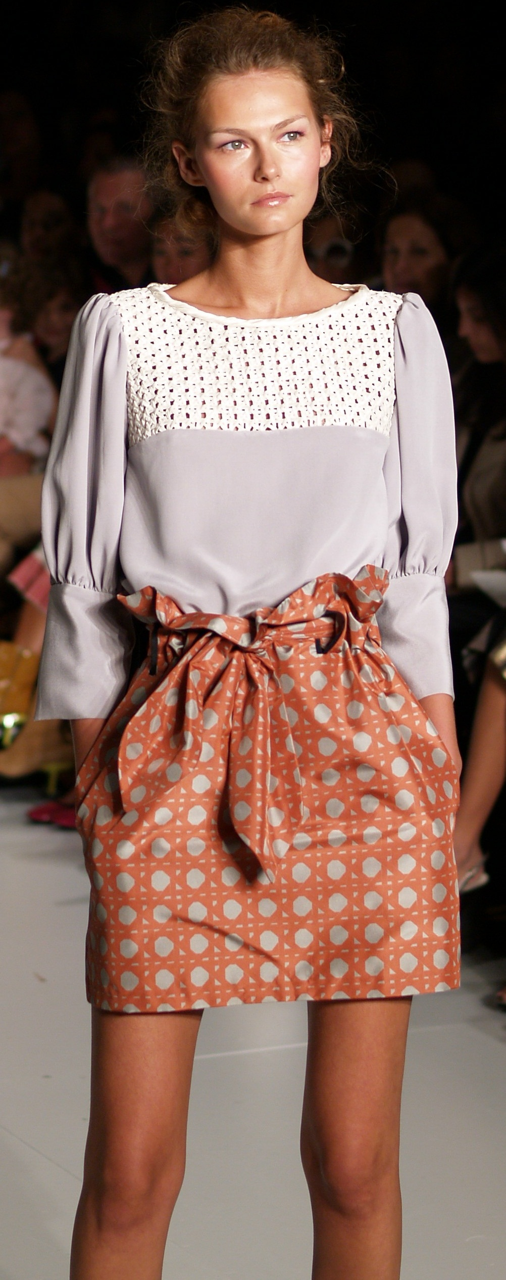 Tatiana Usova modeling in Cynthia Rowley spring 2007 show, New York Fashion Week.